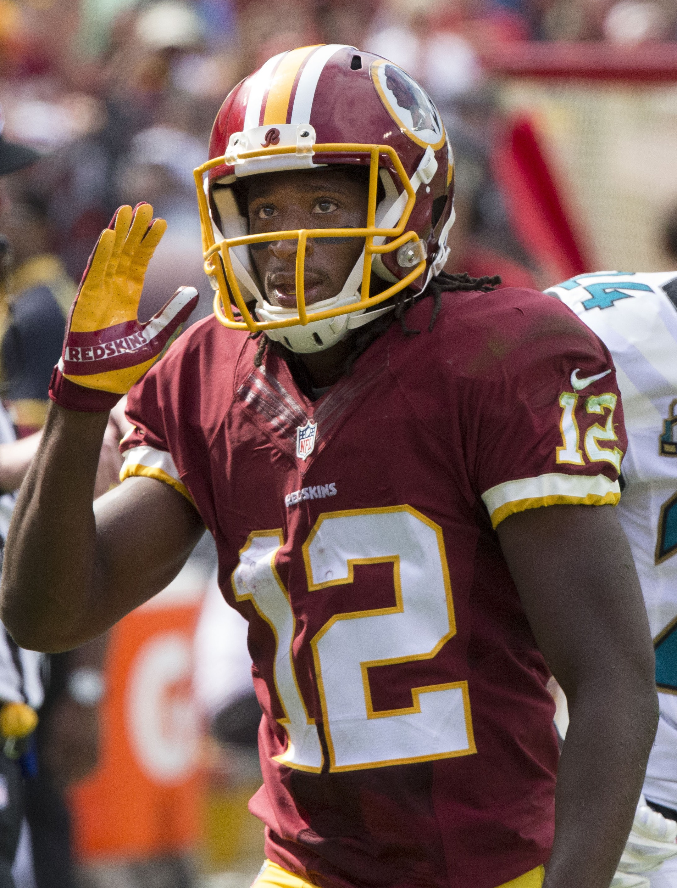 Washington Redskins wide receiver, Andre Roberts, in a game against the Jacksonville Jaguars in 2014.